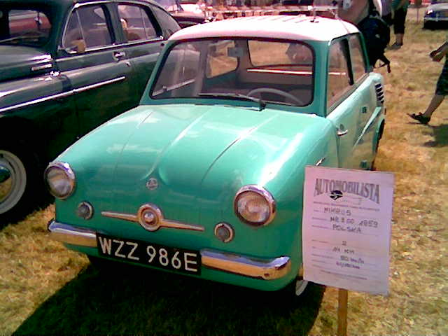 Mikrus MR-300 car. Picture taken by mobile phone.